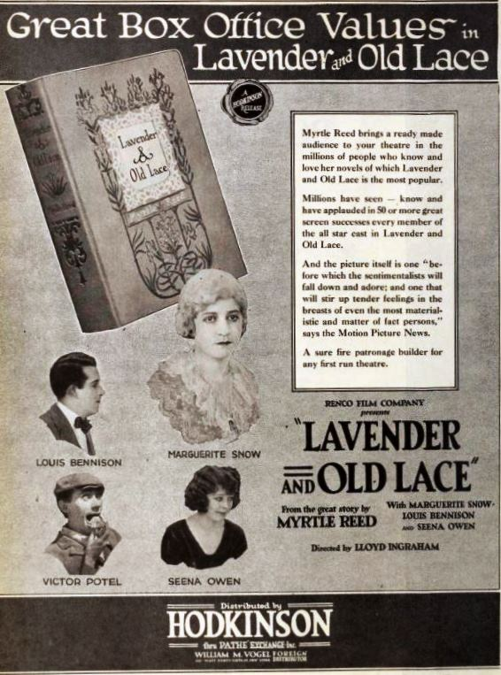 Advertisement for the American drama film Lavender and Old Lace (1921) with Louis Bennison, Marguerite Snow, Victor Potel, and Seena Owen, on page 18 of the July 2, 1921 Exhibitors Herald.